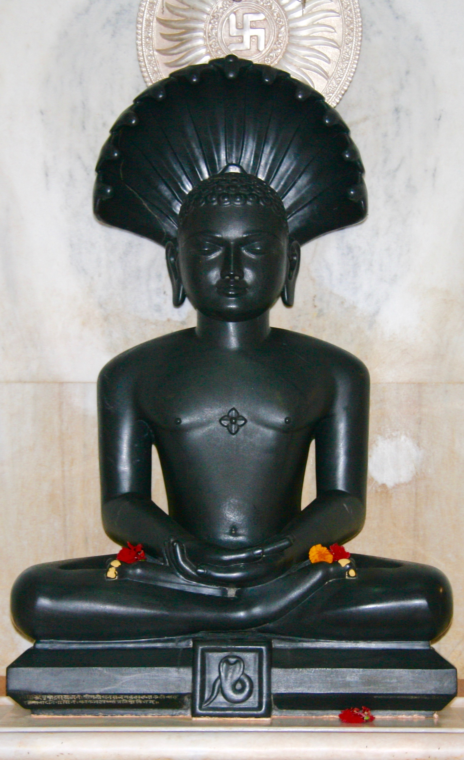 Iconography of the 23rd Tirthankara (teacher, ford-maker) Parsva Parshvanath serpent hood above statue Jain icons, symbolism, arts, Jaina culture, Jains, Jain philosophy Indian religions, culture of India This is derivative work on wikimedia commons available file Kachner.jpg